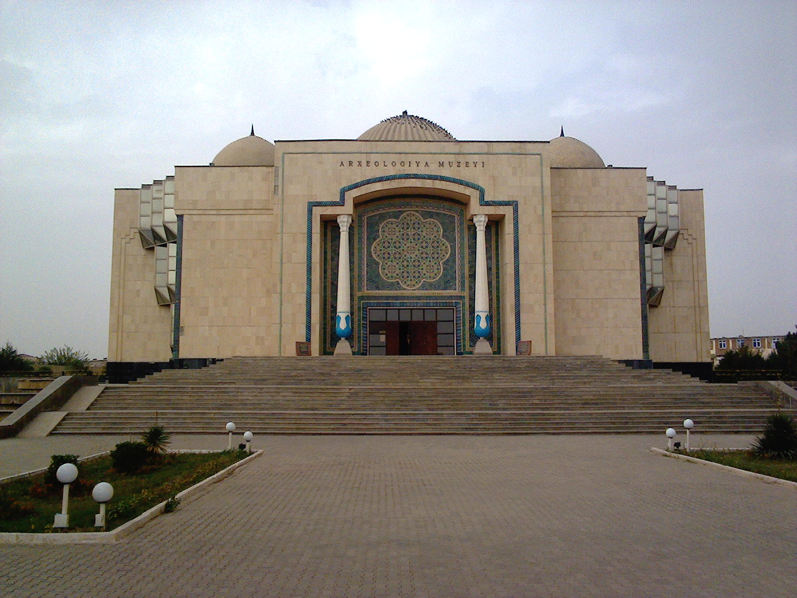 National Arcaeological Museum, Termiz (Uzbekistan).